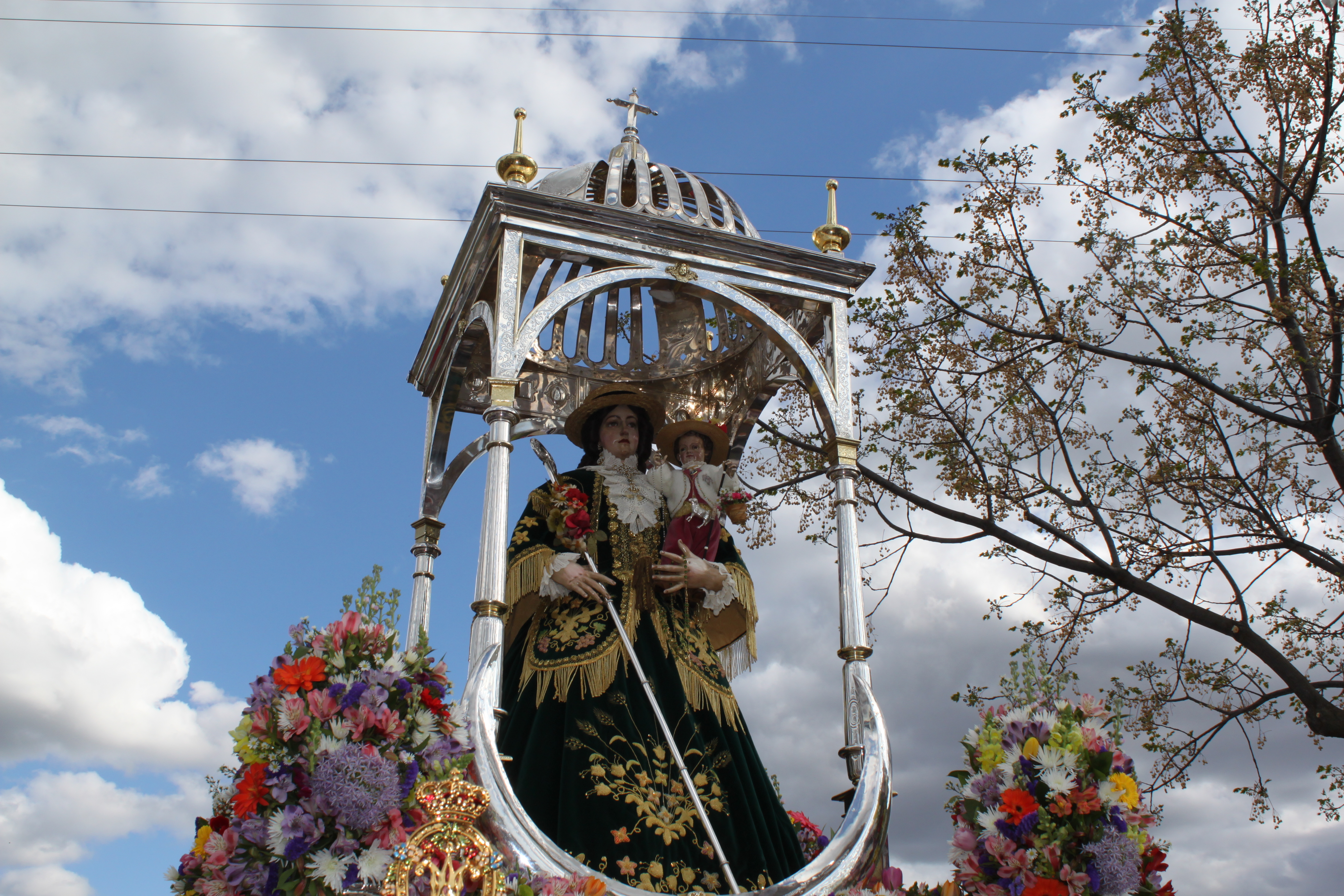 Our Lady of Araceli, of Lucena (Spain), at the romería de bajada (downward pilgrimage), by the era del Santo, approaching Lucena. 450th anniversary of her coming to Lucena from Rome.